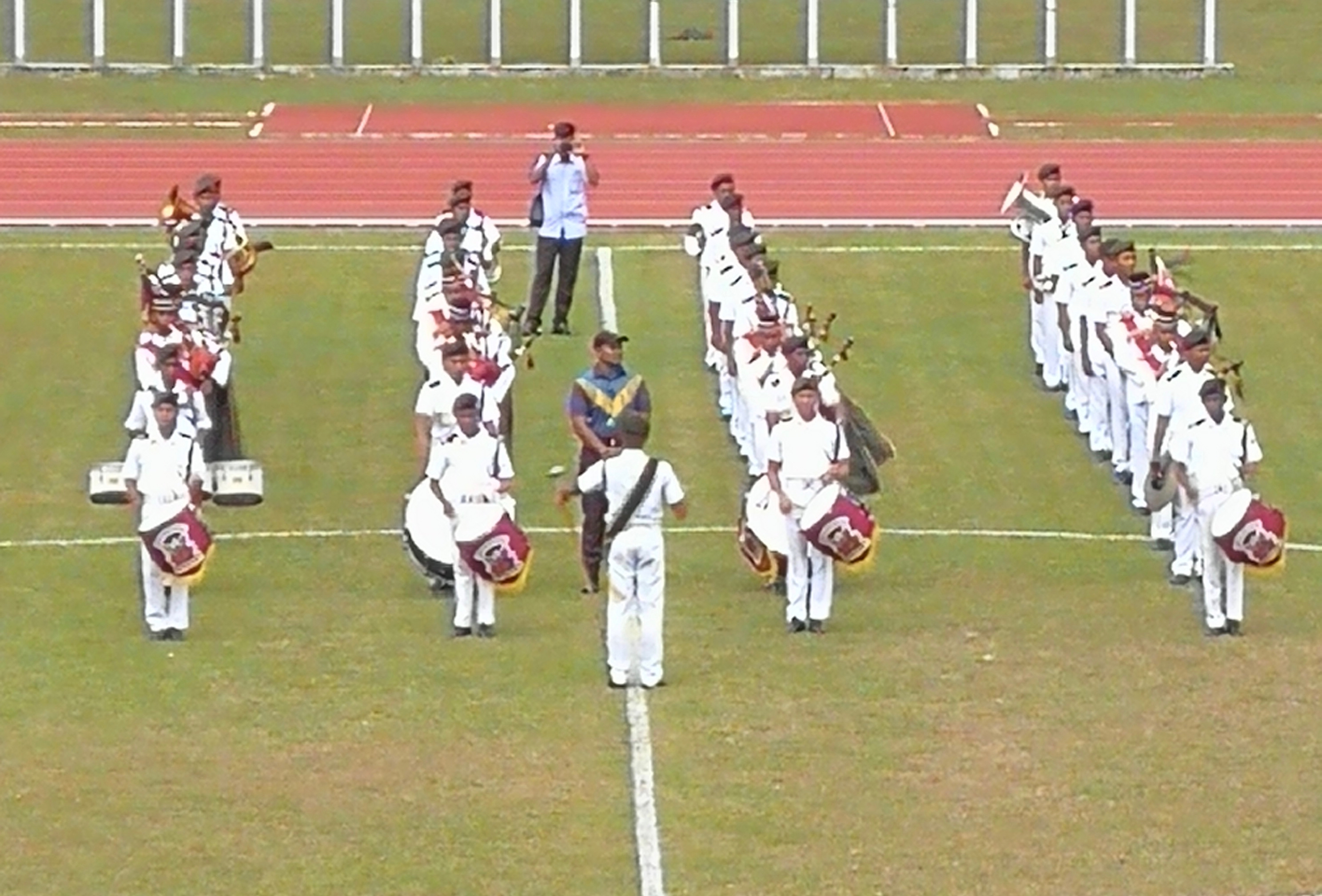 Pesuma32 Band